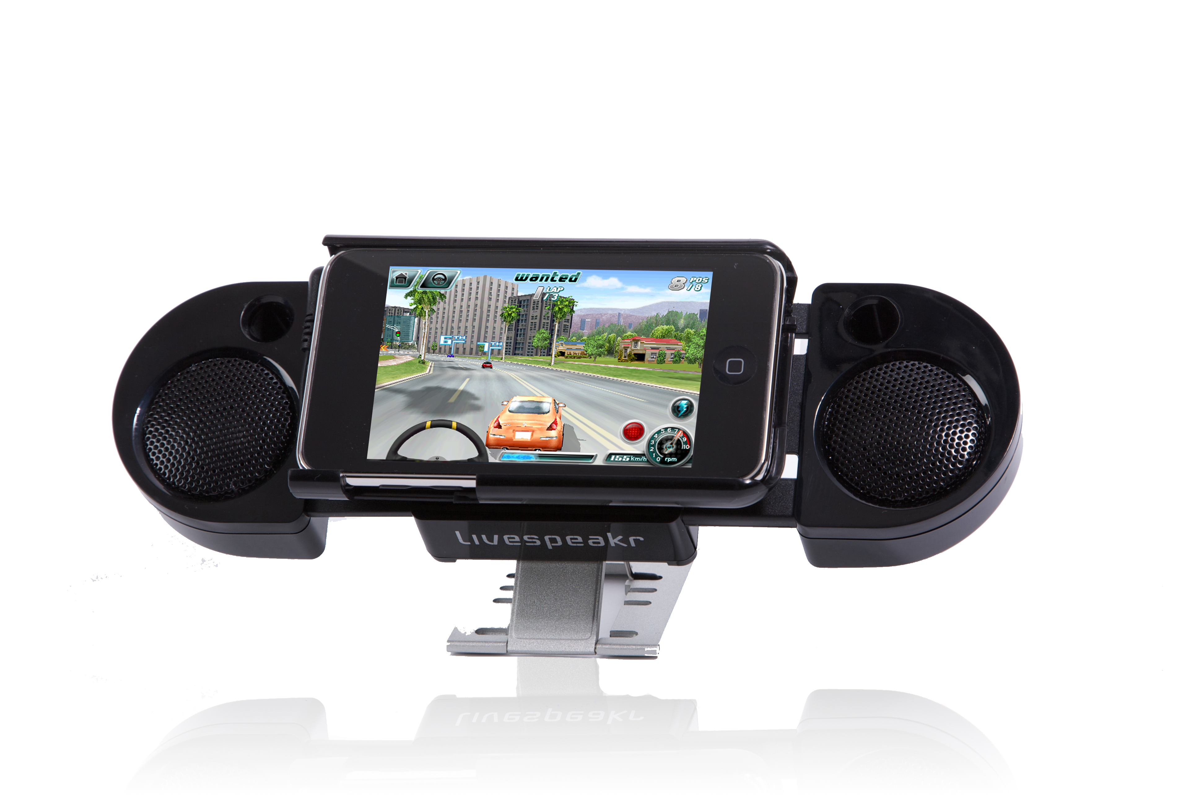 Landscape mode of DGA's Black LiveSpeakr